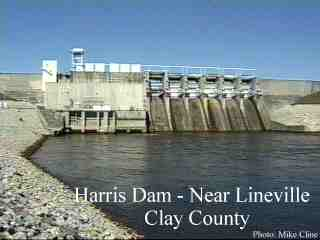 Mike Cline, Personal Photo taken December 3rd, 1996